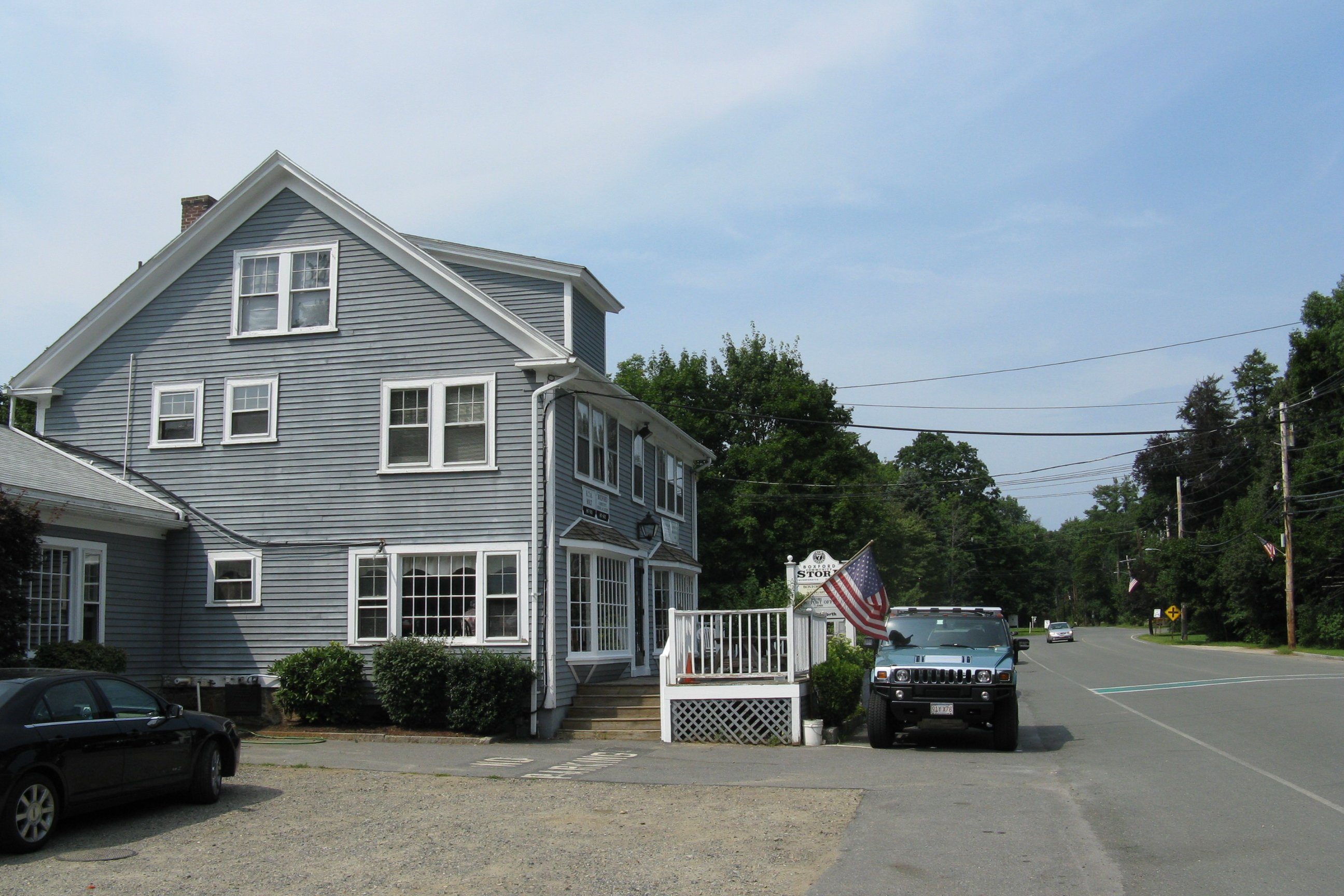 Boxford Community Store, Boxford Massachusetts